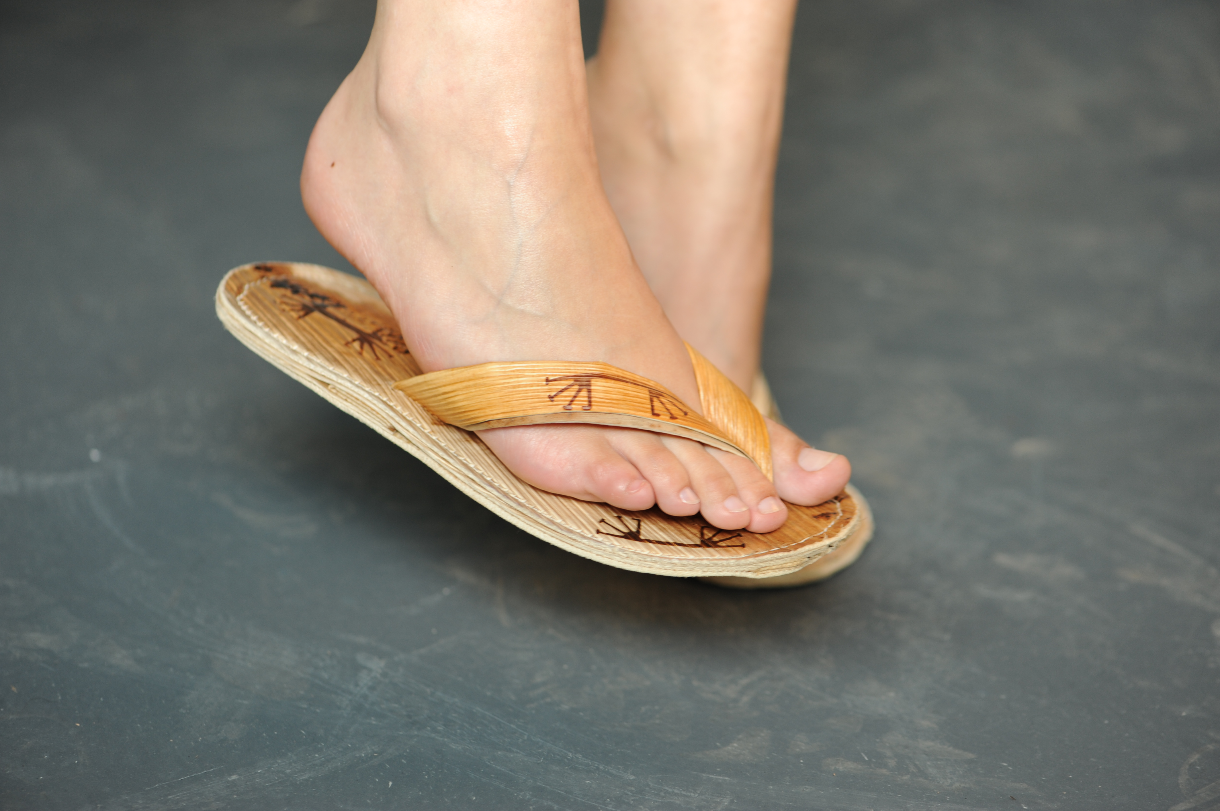 Palm Leather, Veenhoven developed a biochemical soup to soak plant matter in, making this permanently soft and flexible. In this case palm leaves are treated from which flipflops where produced.